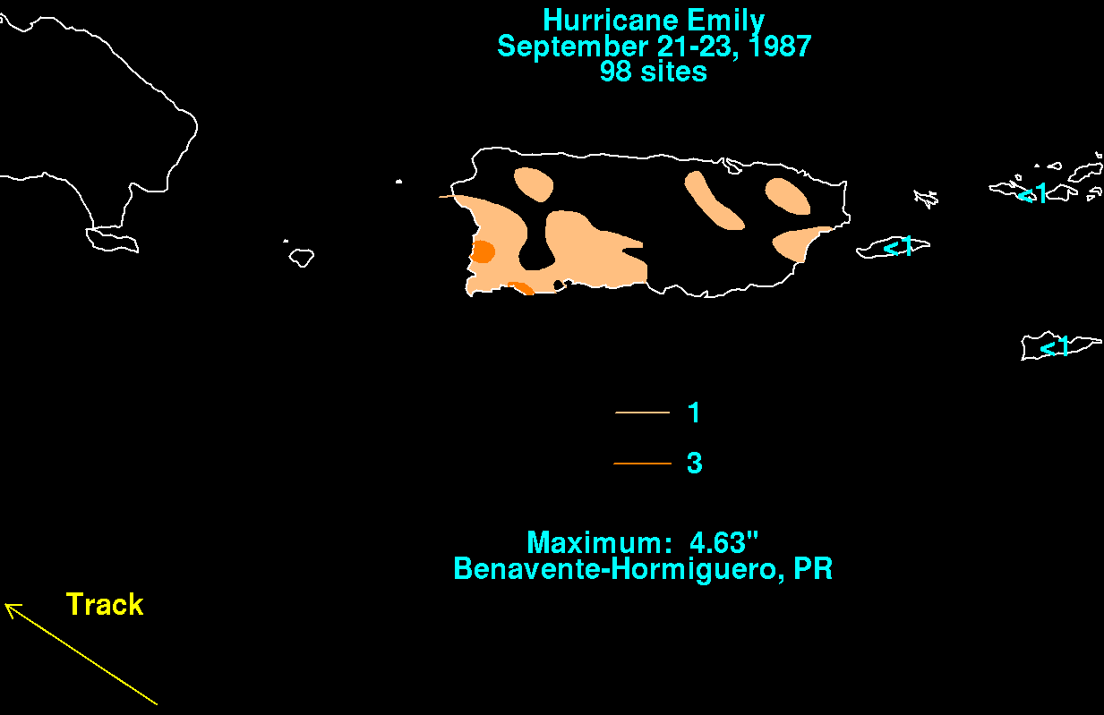 Storm total rainfall map of Hurricane Emily during September 1987.